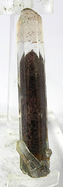 Quartz, Chlorite Locality: Lupoto Mine, Kolwezi, Western area, Katanga Copper Crescent, Katanga (Shaba), Democratic Republic of Congo (Zaïre) (Locality at ) Size: 10.1 x 1.8 x 1.4 cm. Some phantoms are hard to make out. Then there are crystals like this - WOW! The quartz crystal inside was richly included with red chlorite before being engulfed by later growth and becoming this incredibly striking phantom crystal. There is some small angled-back damage to the termination on top, but it is the phantom that matters here anyway and the piece is showy as heck, if not pristine as you wish. This is an old and well known find from the early 1990s, and specimens are uncommon today.